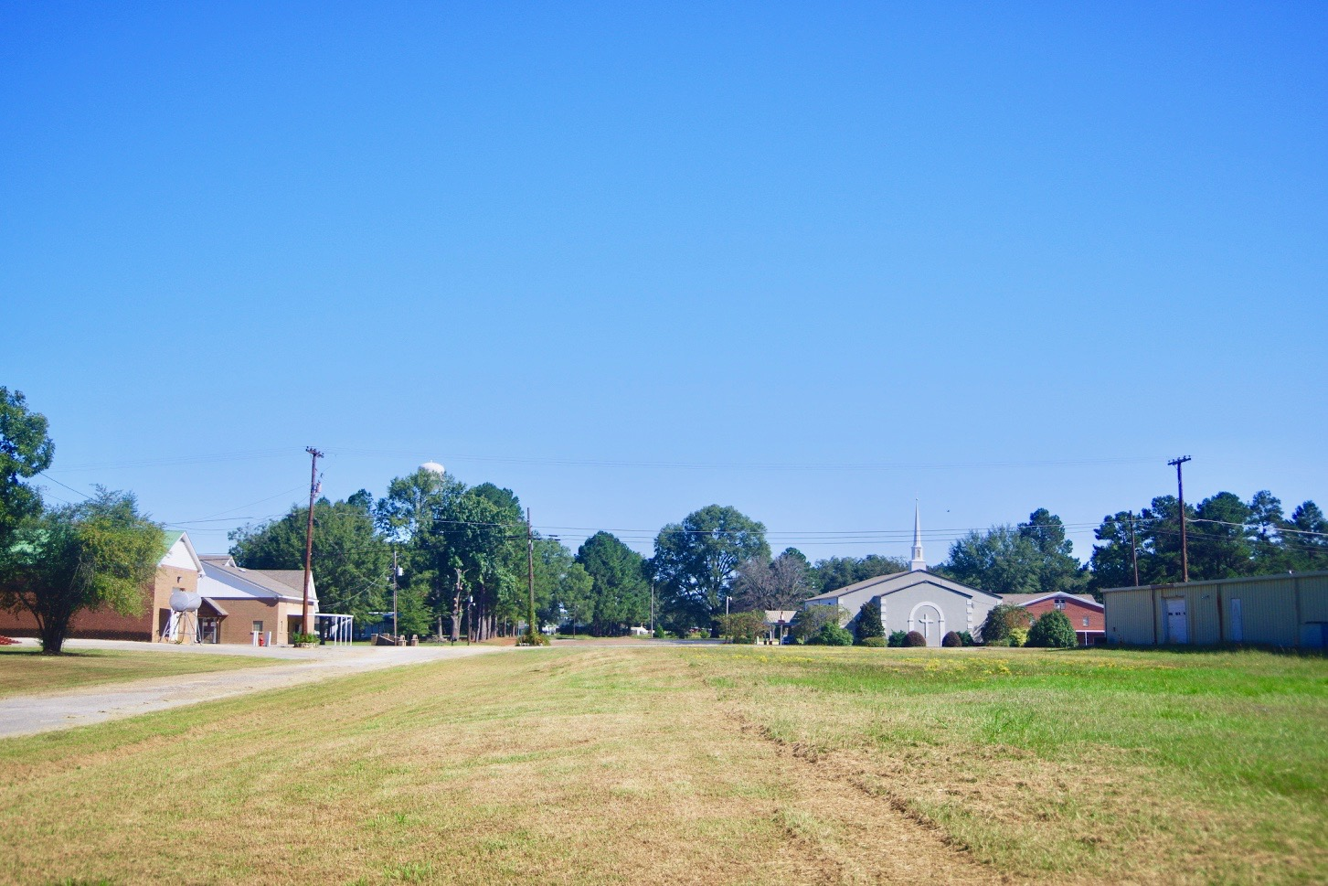 View of Falkner, Mississippi, United States, from just off Ruckersville Road near City Hall.